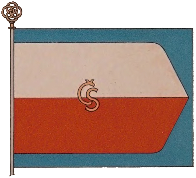 Flag of the Czechoslovak National Council